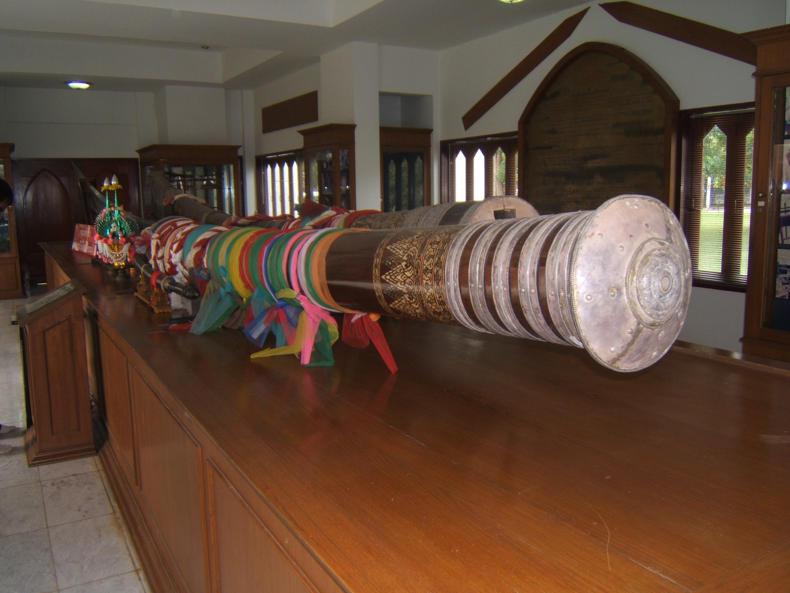 Reproduction of Phraya Phichai's sword